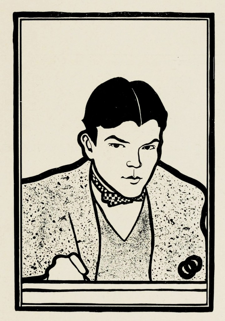 Self portrait of Ernest Haskell. Subject deceased in 1925, painting well before that, and subject dead over 75 years in any case.